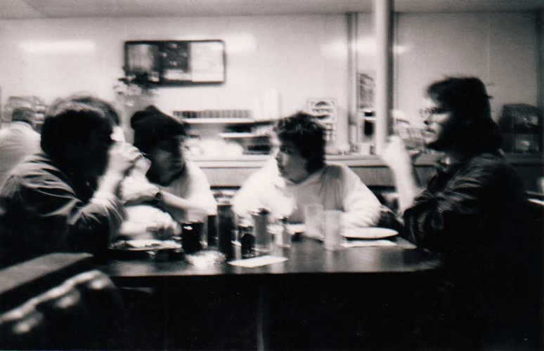 Early promotional photo of the downriver Detroit band SlugBug. L to R: Chris Hartmann, Brian Wimpy, Jeremy Porter, W. Randy Barrett III. Late 1992, Wyandotte, MI.